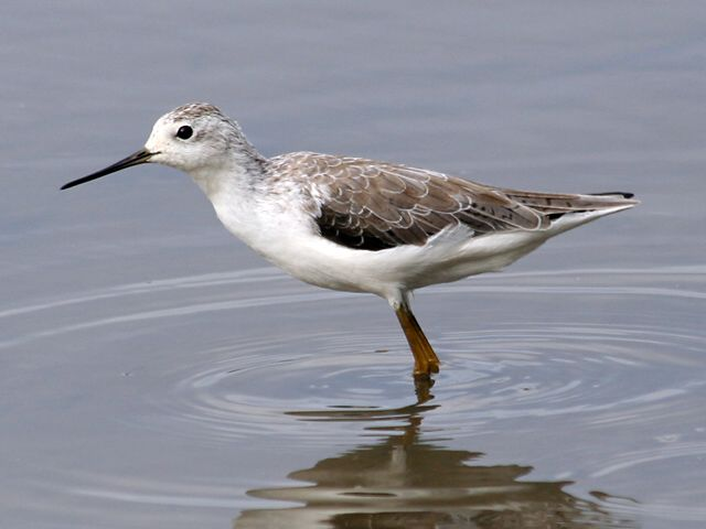 Marsh Sandpiper, non breeding plumage taken in Victoria Australia